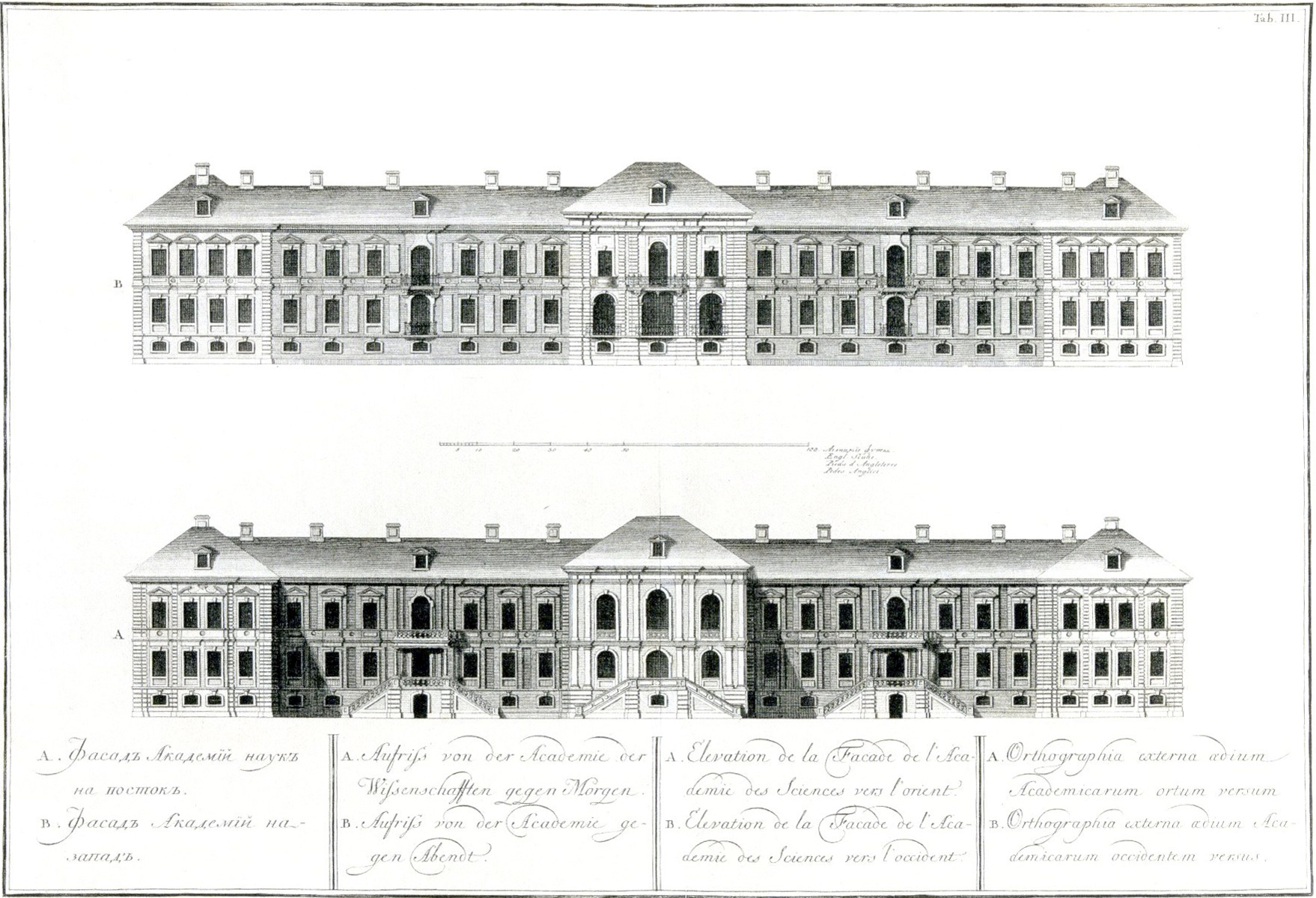 Christian-Albet Wortmann - View of the two facades of the Academy of Sciences, 1741